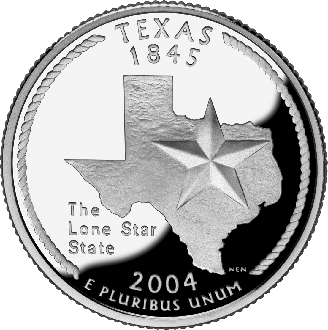 2004 U.S. commemorative quarter, with a Texas symbol